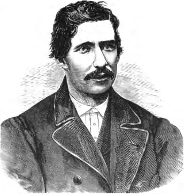 An illustration of Patsy Conroy, a 19th century river pirate and leader of the Patsy Conroy Gang, from "Criminals of America, Or, Tales of the Lives of Thieves: Enabling Every One to be His Own Detective" (1876) by Philip Farley.